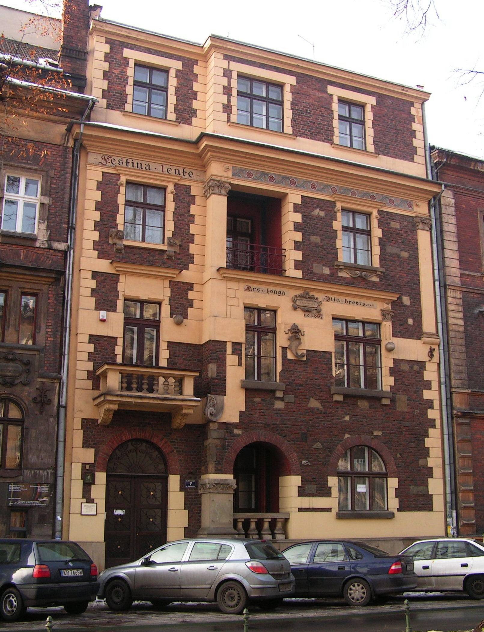 "Festina lente" house by architect Teodor Talowski, 1887, Retoryka 7 street, Kraków, Poland